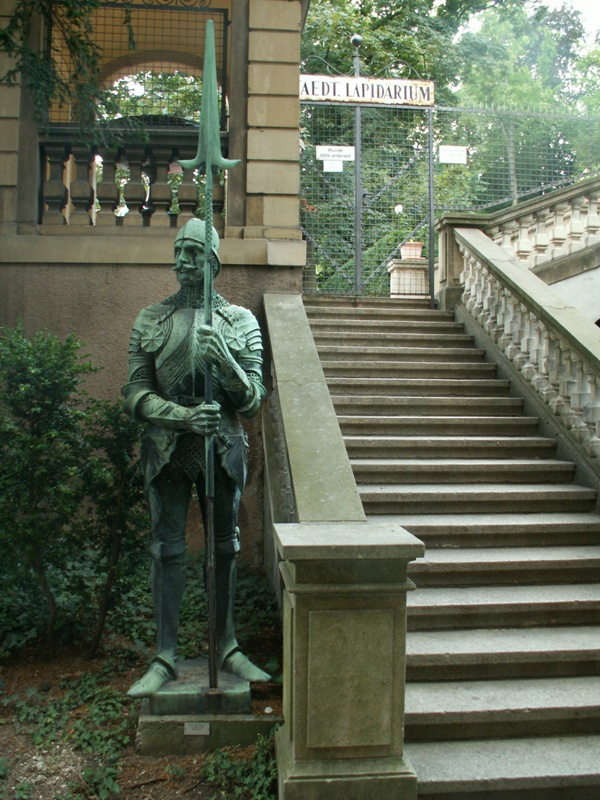 Entrance of the lapidarium in Stuttgart, Germany